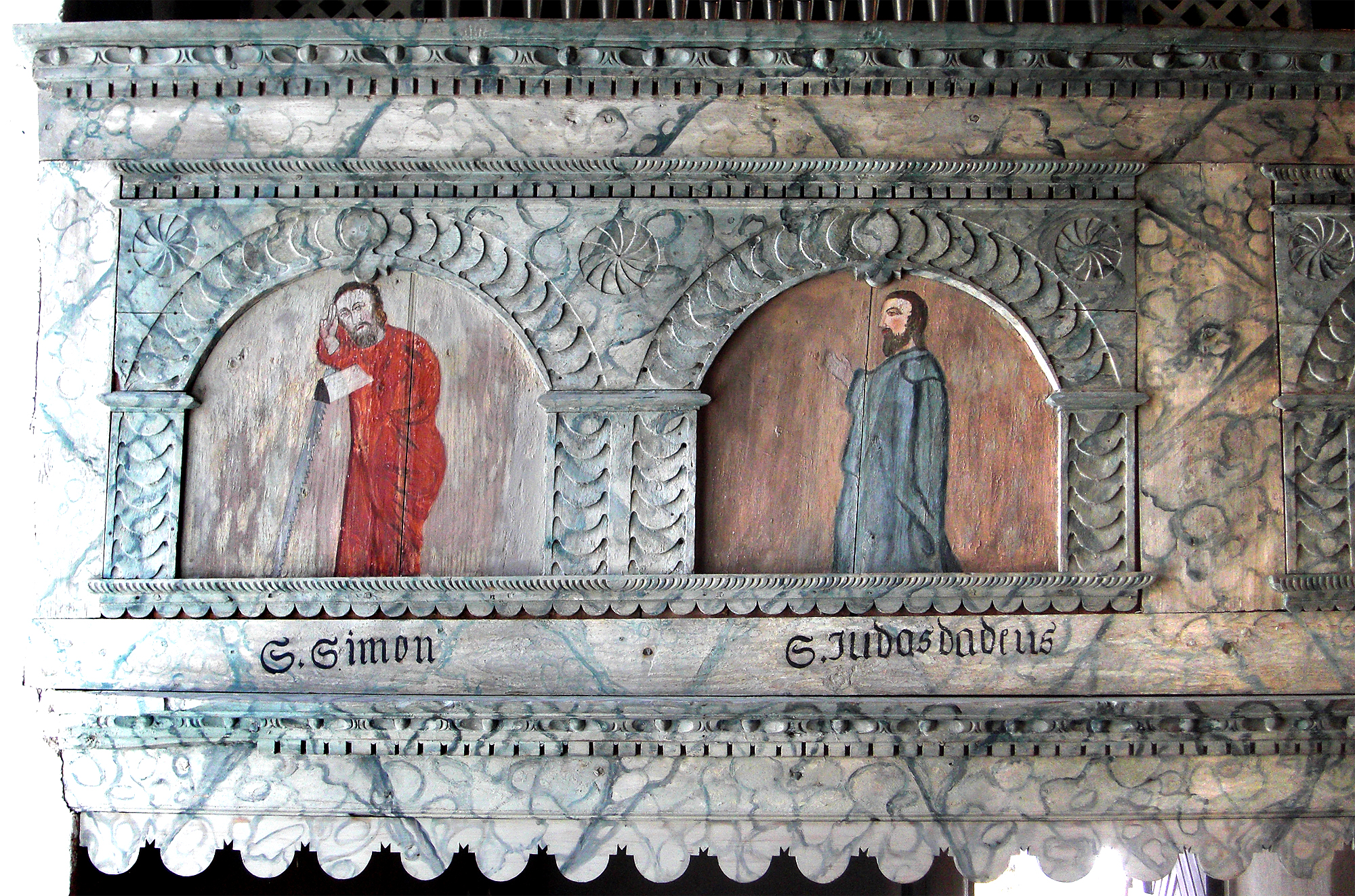 Apostles in Göteve church, diocese of Skara, Sweden.